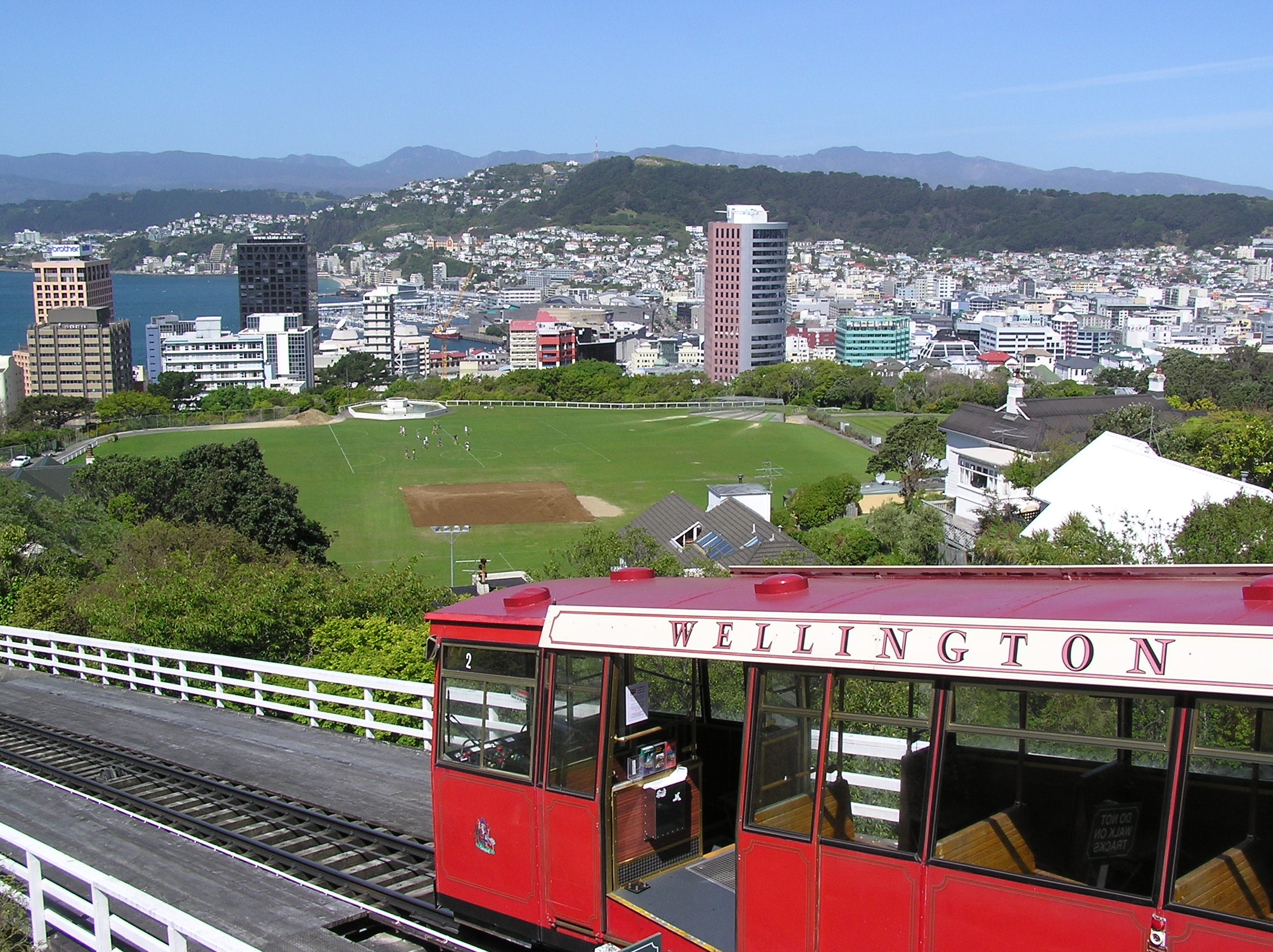 Photo taken from Wellington Botanic Garden lookout in Kelburn, Wellington, New Zealand, looking East. Wellington Cable Car parked over the maintenance pit at Kelburn station. Doors are open. Kelburn Park is undergoing resurfacing in preparation for Cricket season.